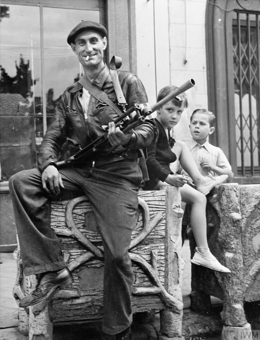 Watched by two small boys, a member of the FFI (French Forces of the Interior) poses with his Bren gun at Châteaudun.